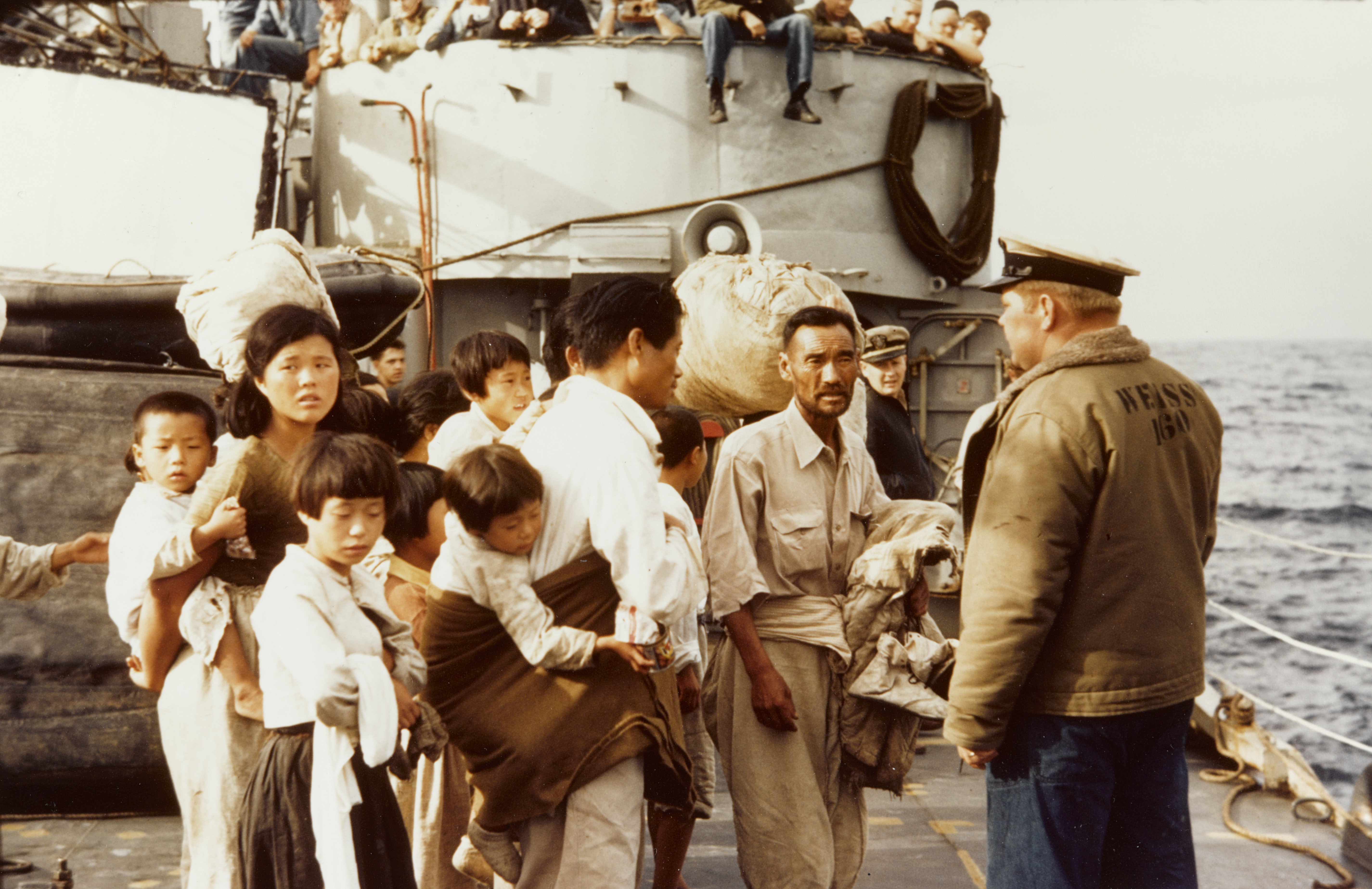 "Operation Fishnet", Korea, 1952: North Korean refugees on board a U.S. Navy fast transport (APD) after they were rescued by Underwater Demolition Team members, during operations intended to reduce Communist Forces' food supplies by destroying North Korean fishing nets. The Chief Petty Officer's jacket (right) indicates that the ship is USS Weiss (APD-135). The photograph is dated 16 September 1952.